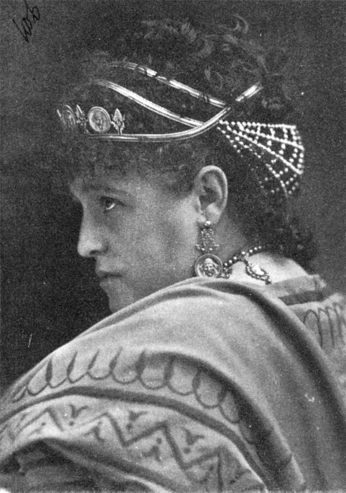 Soprano Gabrielle Krauss in the role of Pauline in Charles Gounod's opera Polyeucte